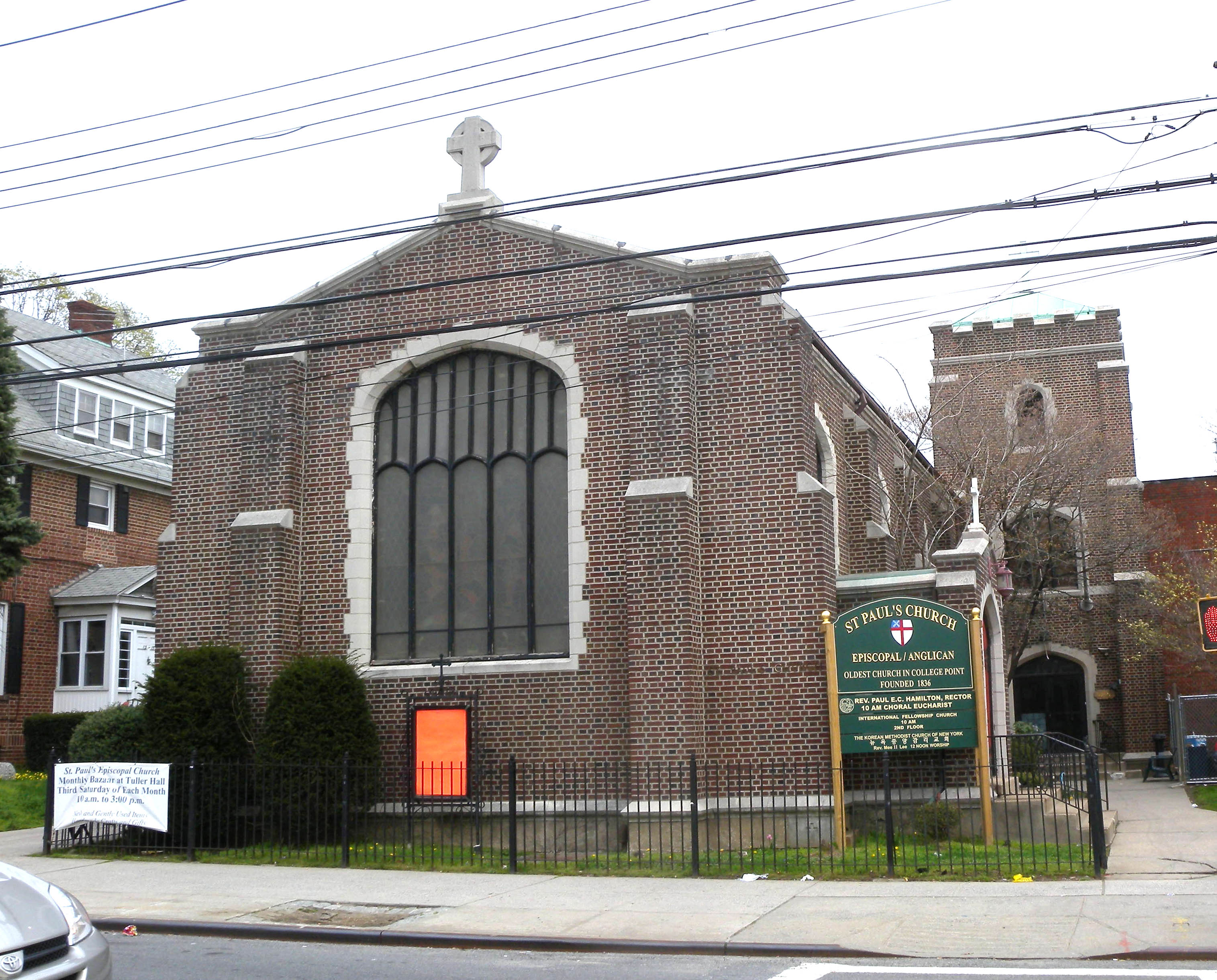 Looking east across College Point Boulevard at St Paul's Episcopal Church on a cloudy midday.